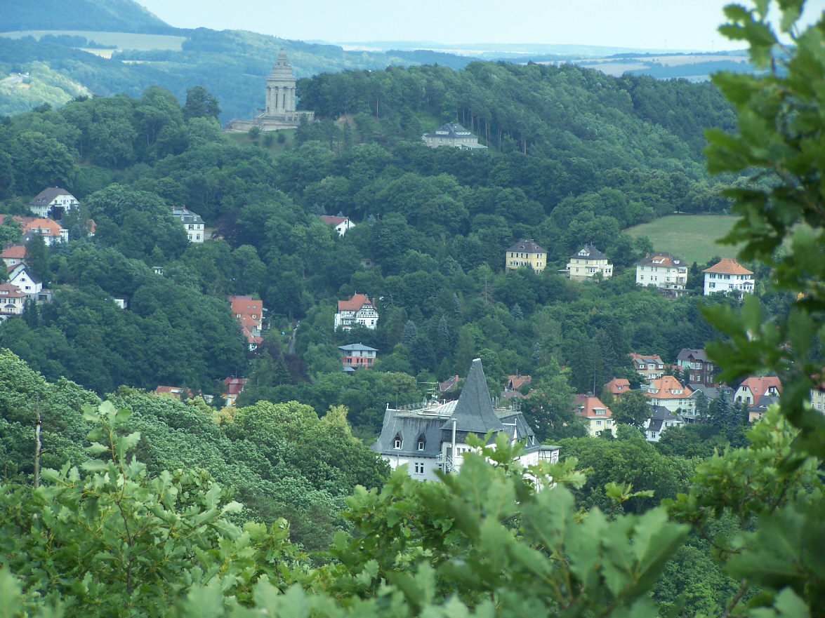 The Göpelskuppe in Eisenach.